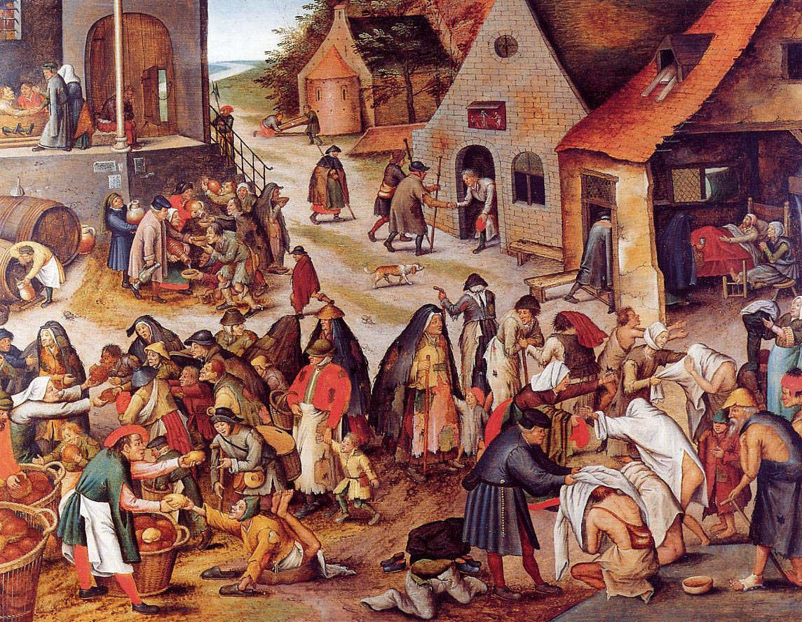 Pieter il Giovane Bruegel's art